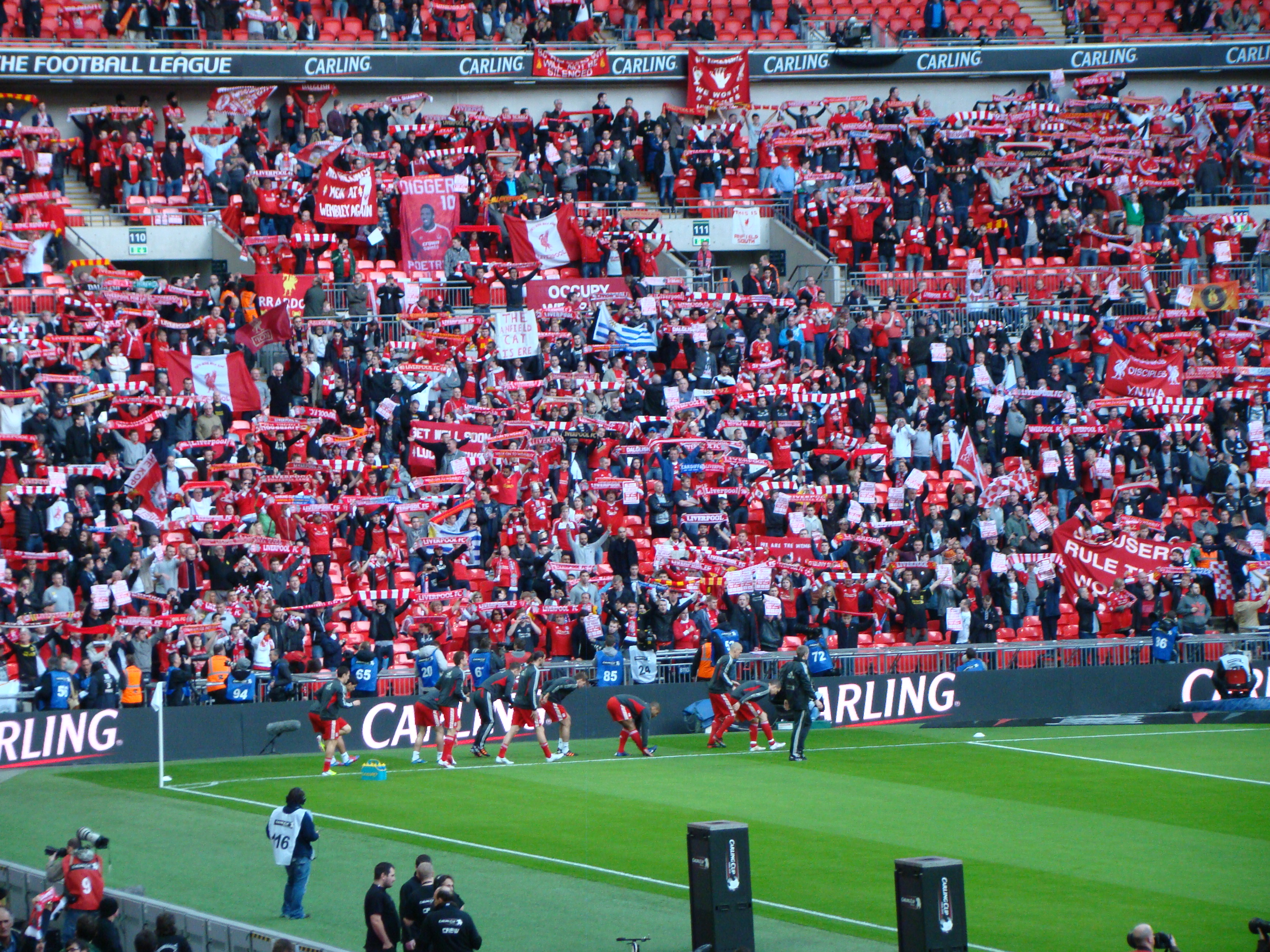 26/02/12 Cardiff V Liverpool, Carling Cup Final, Wembley, London